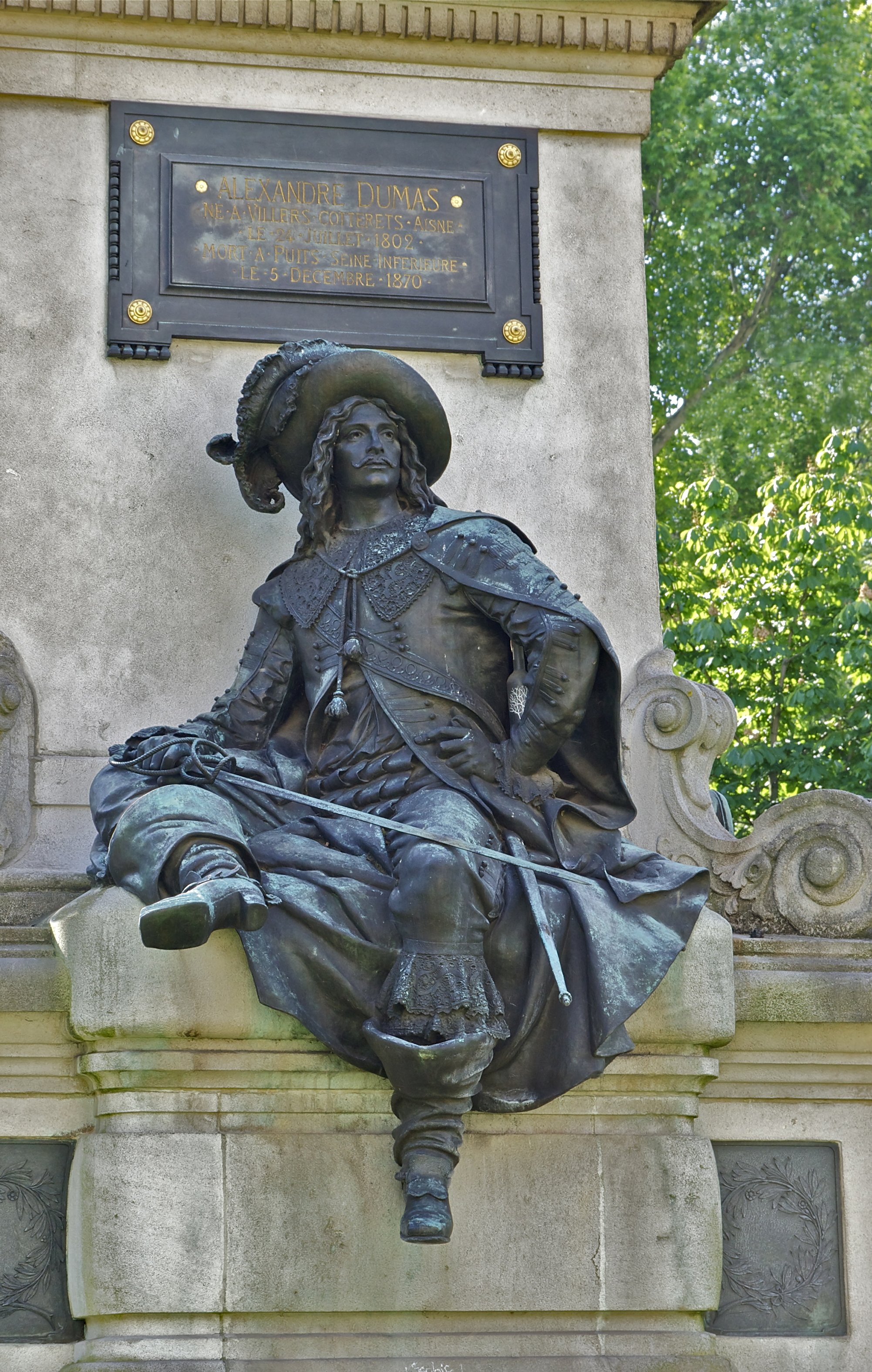 D'Artagnan, backside of the monument to Alexandre Dumas, Paris, France.